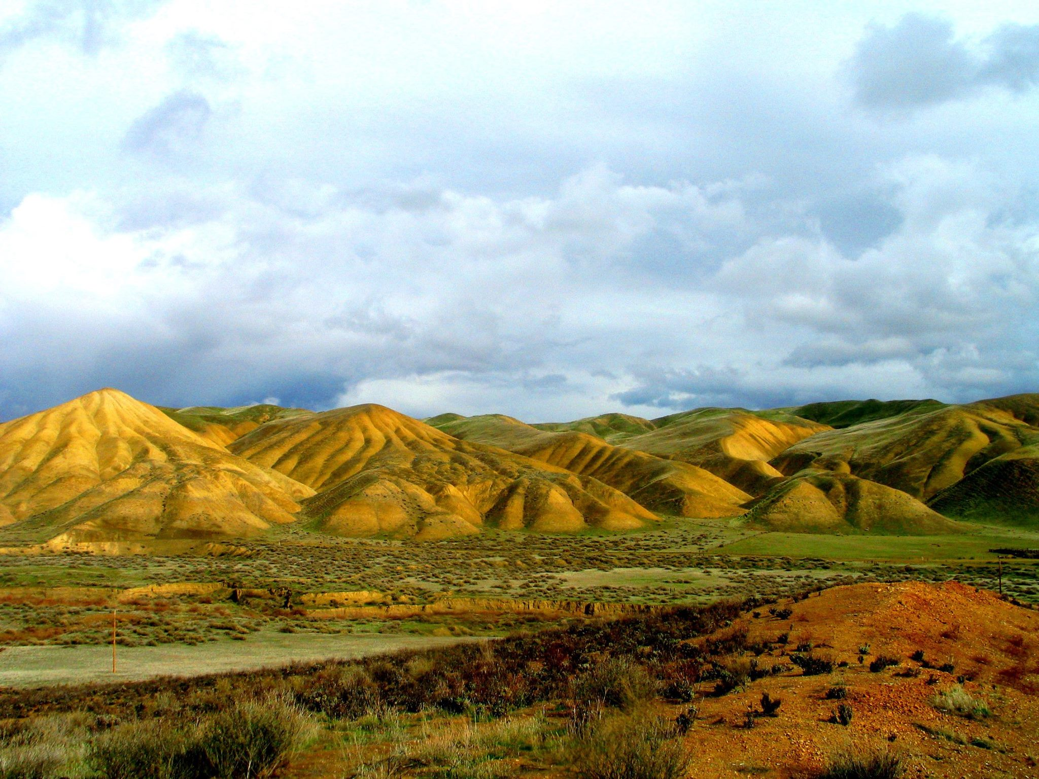 Tumey Hills recreation area, BLM [1]. Photo by Michael Westphal, BLM.